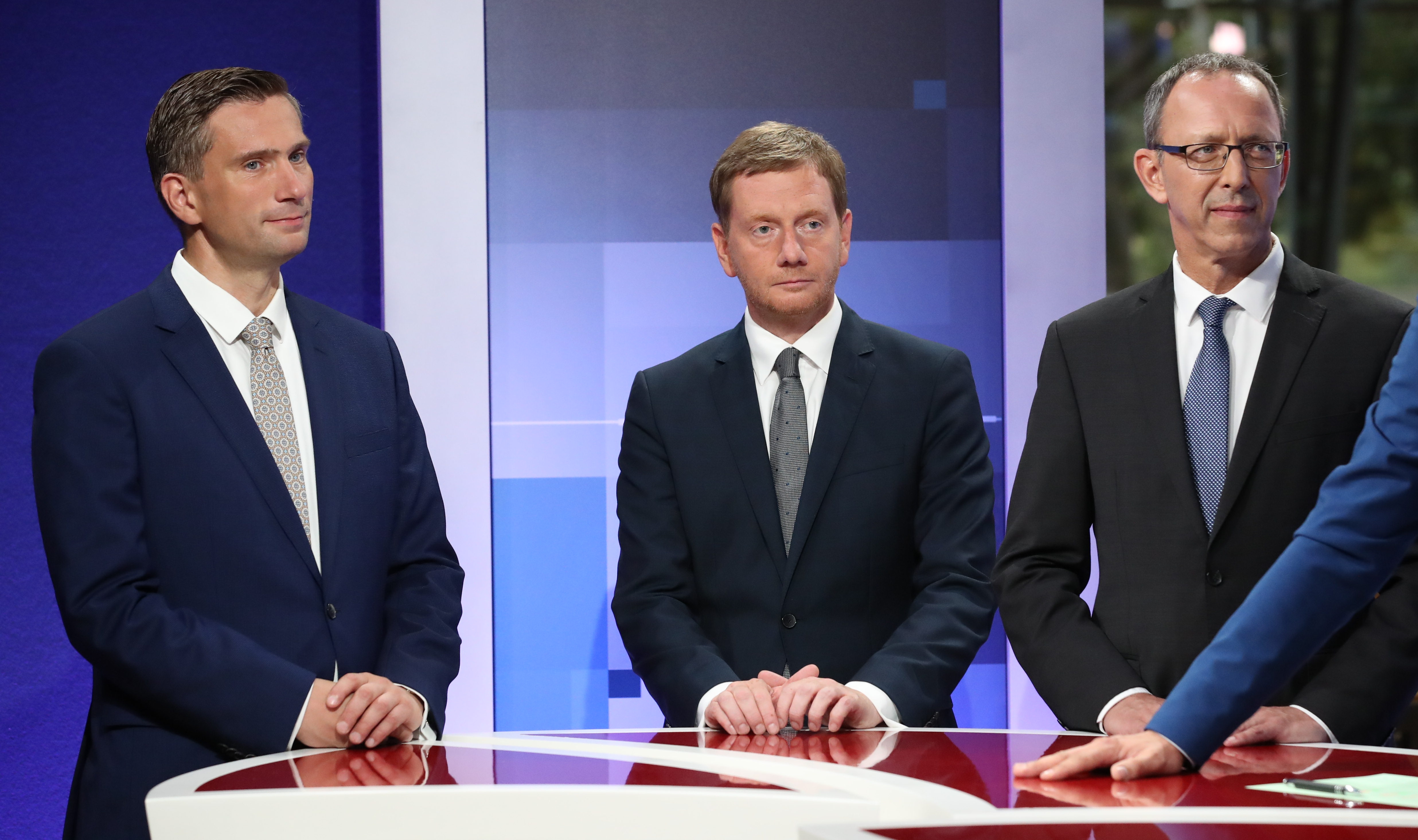 Election night Saxony 2019: Martin Dulig (SPD), Prime minister Michael Kretschmer (CDU), Jörg Urban (AfD)